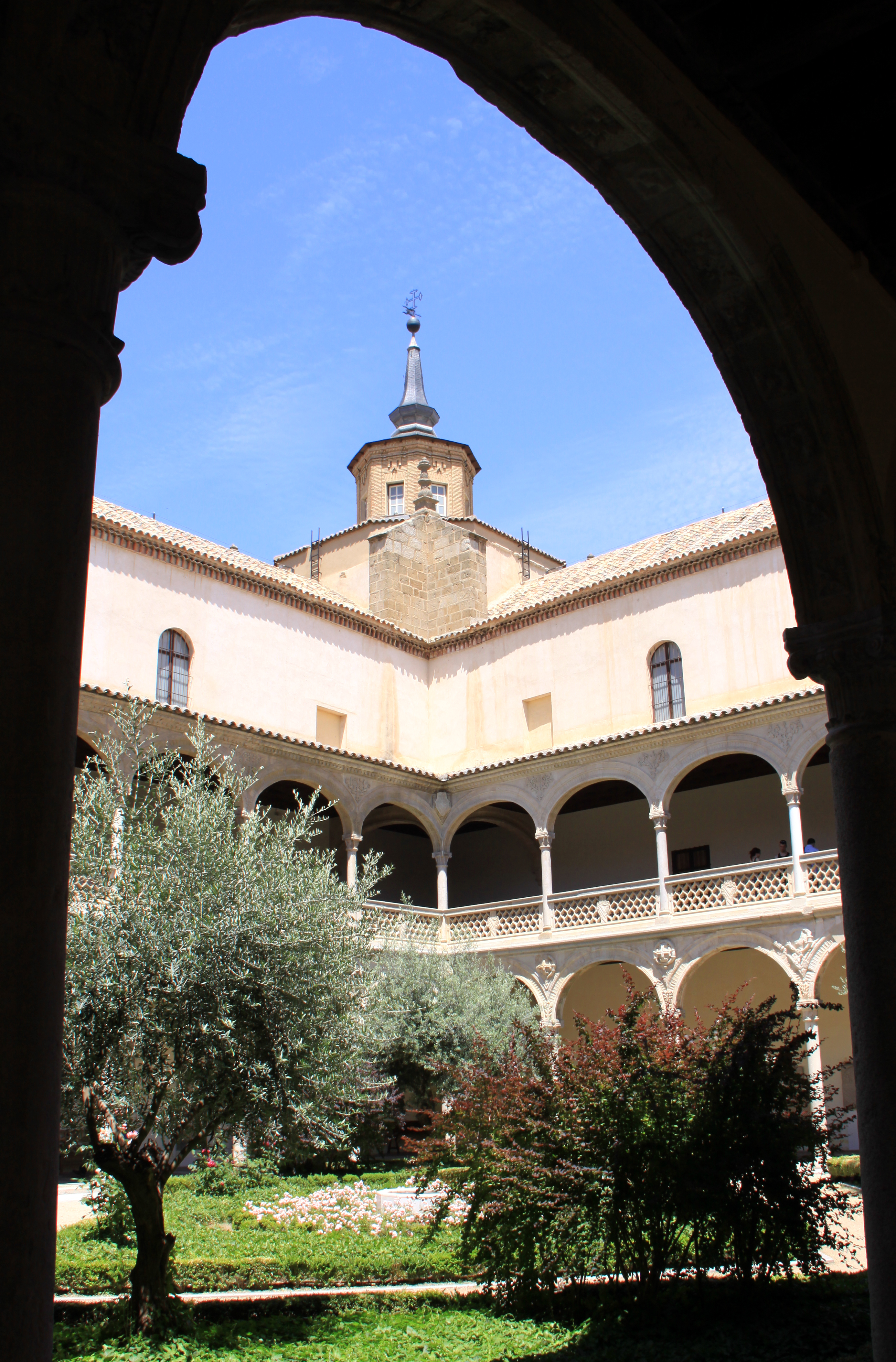 Toledo, Museo Santa Cruz